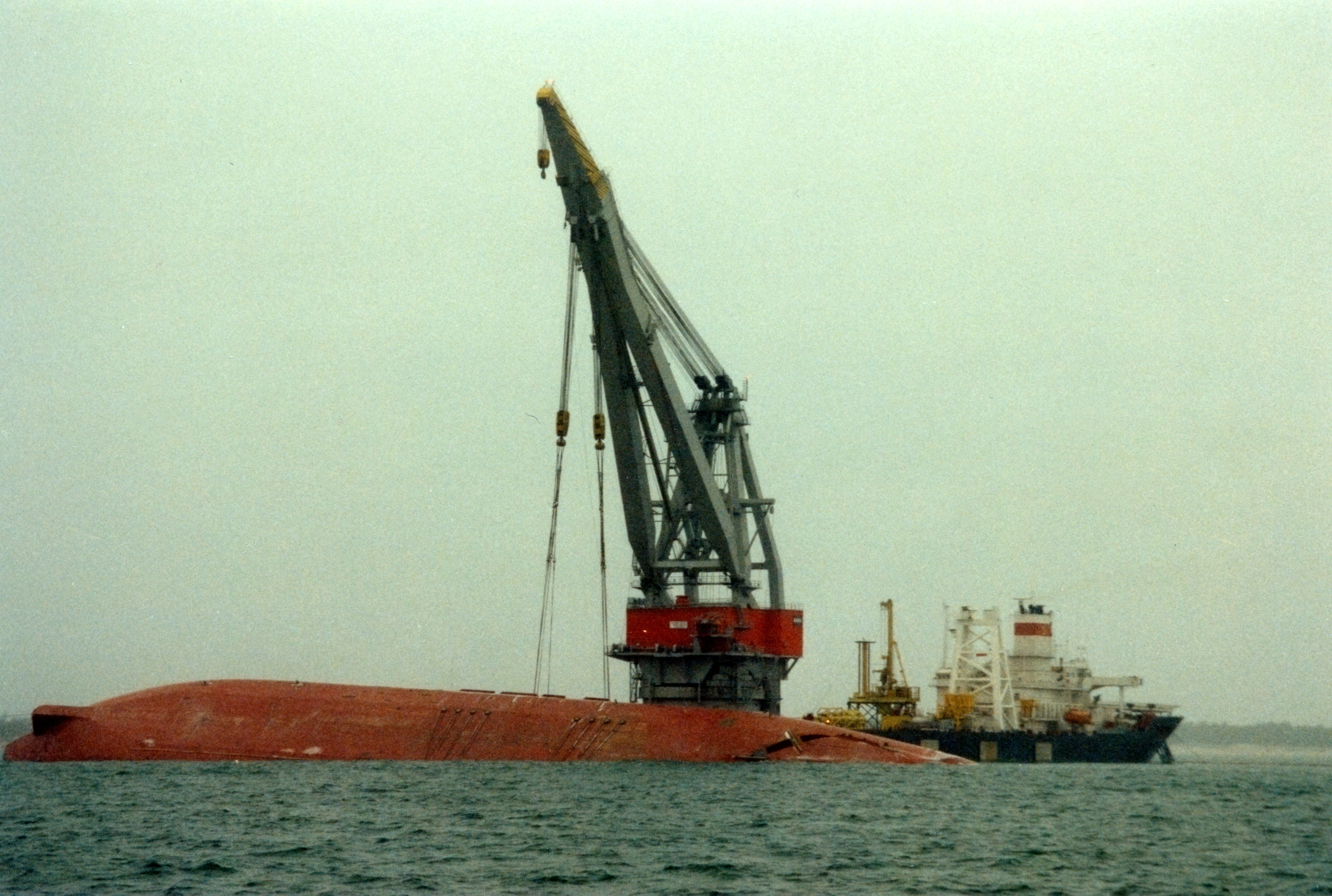 Russian crane vessel Stanislav Yudin rightening the capsized pusher-barge combination (integrated tug and barge) Finn-Baltic off Hanko on 27 January 1991.